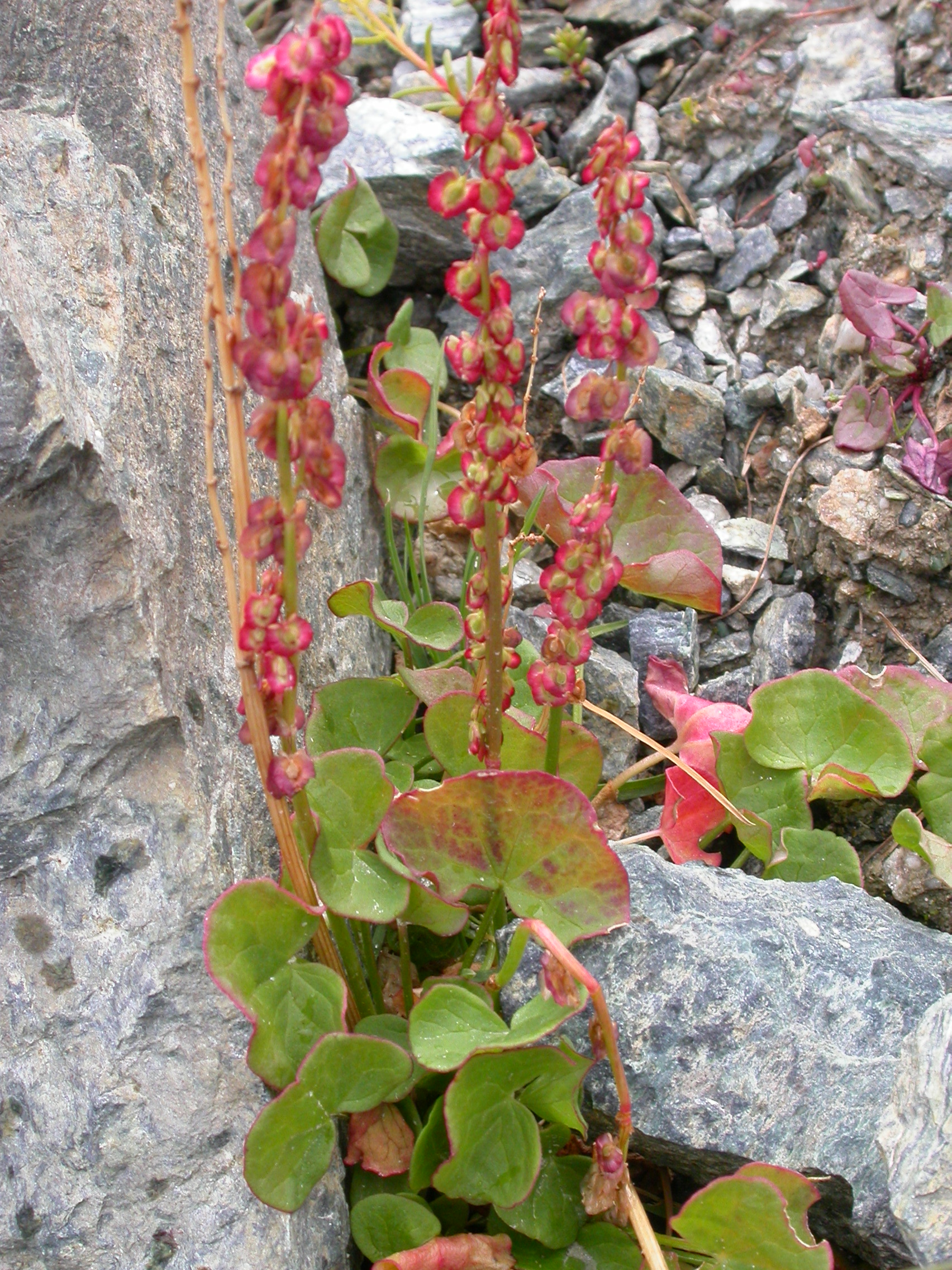 Oxyria digyna Zermatt, Riffelberg (Kanton Wallis, Switzerland), 2500 m Author: Barbara Studer – own photograph Date: 2.08.06